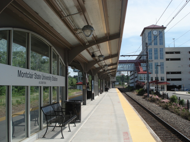 Montclair State University Station